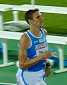 2010 European Championships in Athletics - 1500 m final - 250 metres left. Christian Obrist